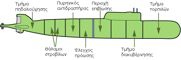 Description of the compartments of the Kursk submarine Translation of the png version of the file originally created by Jean-Claude Duss. Created using the GIMP. Image:Koursk coupe.gif converted to PNG by ~~helix84 20:52, 30 October 2006 (UTC)